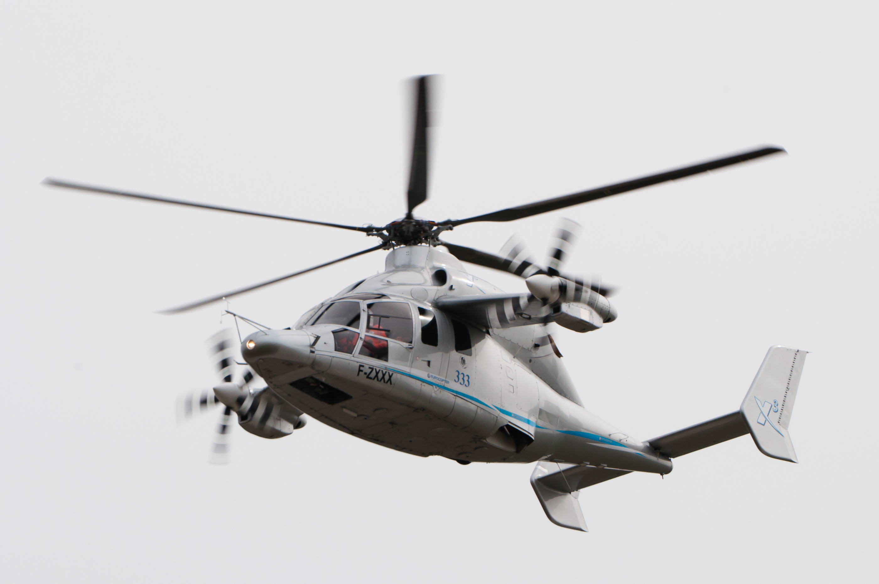 Eurocopter X3 (cn 1, Prototype, reg. F-ZXXX) high-speed helicopter flying a display at ILA Berlin Air Show 2012.